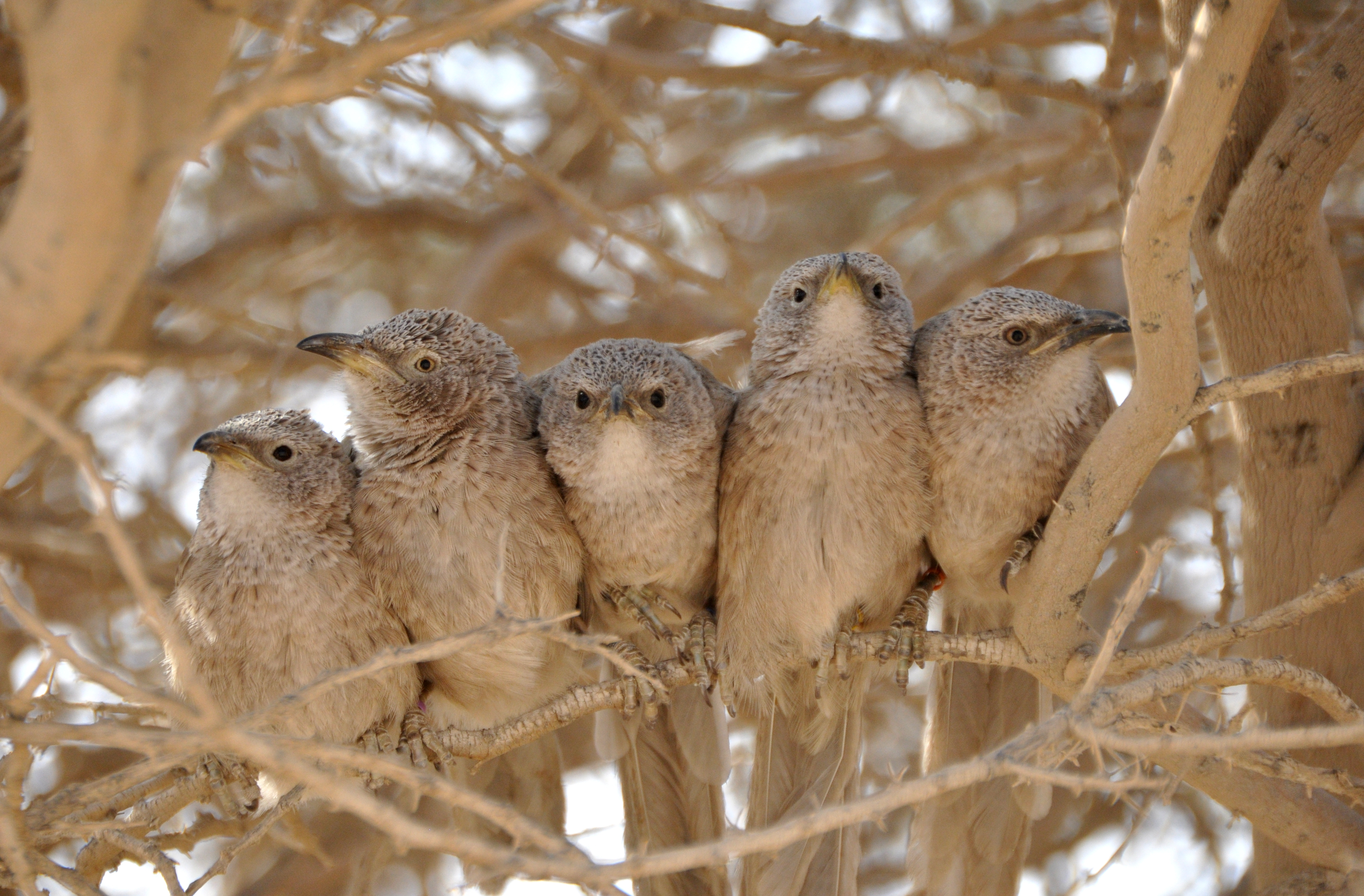 Arabian babbler (Turdoides squamiceps) group allopreening in front of a neighboring group during a border confrontation.